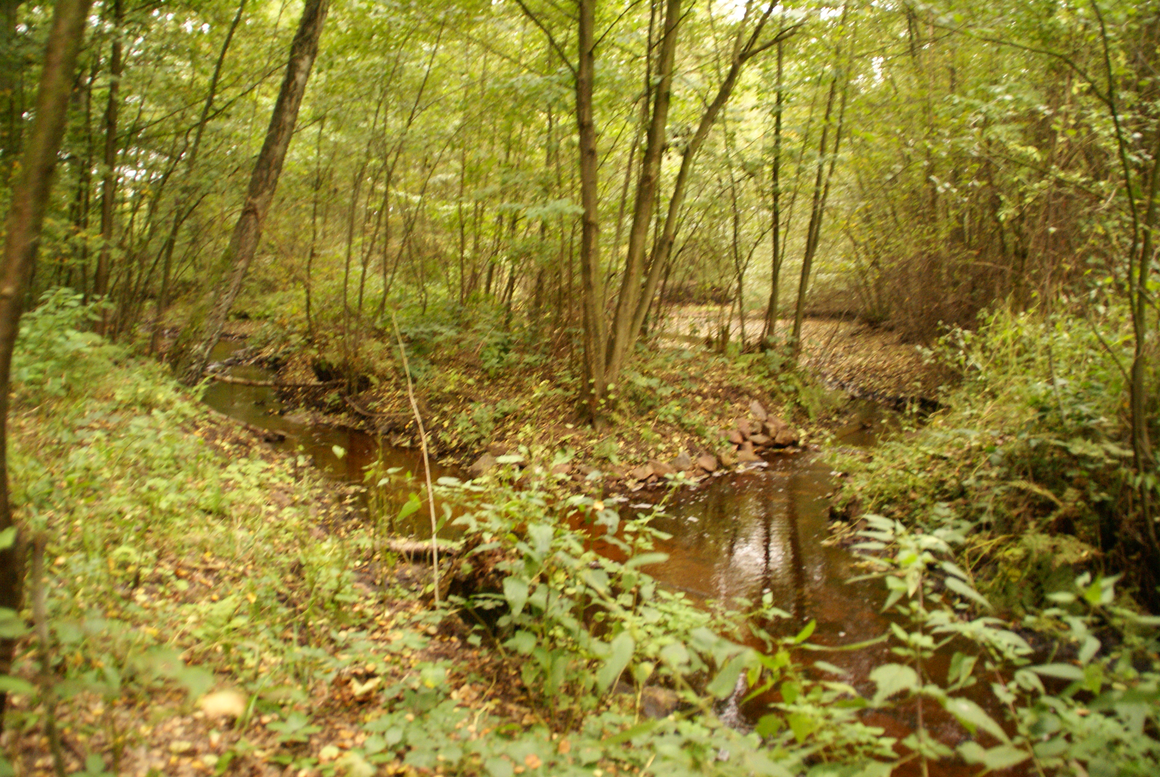 Hamburg (Germany): Poppenbütteler Graben and Mellingbek (right)